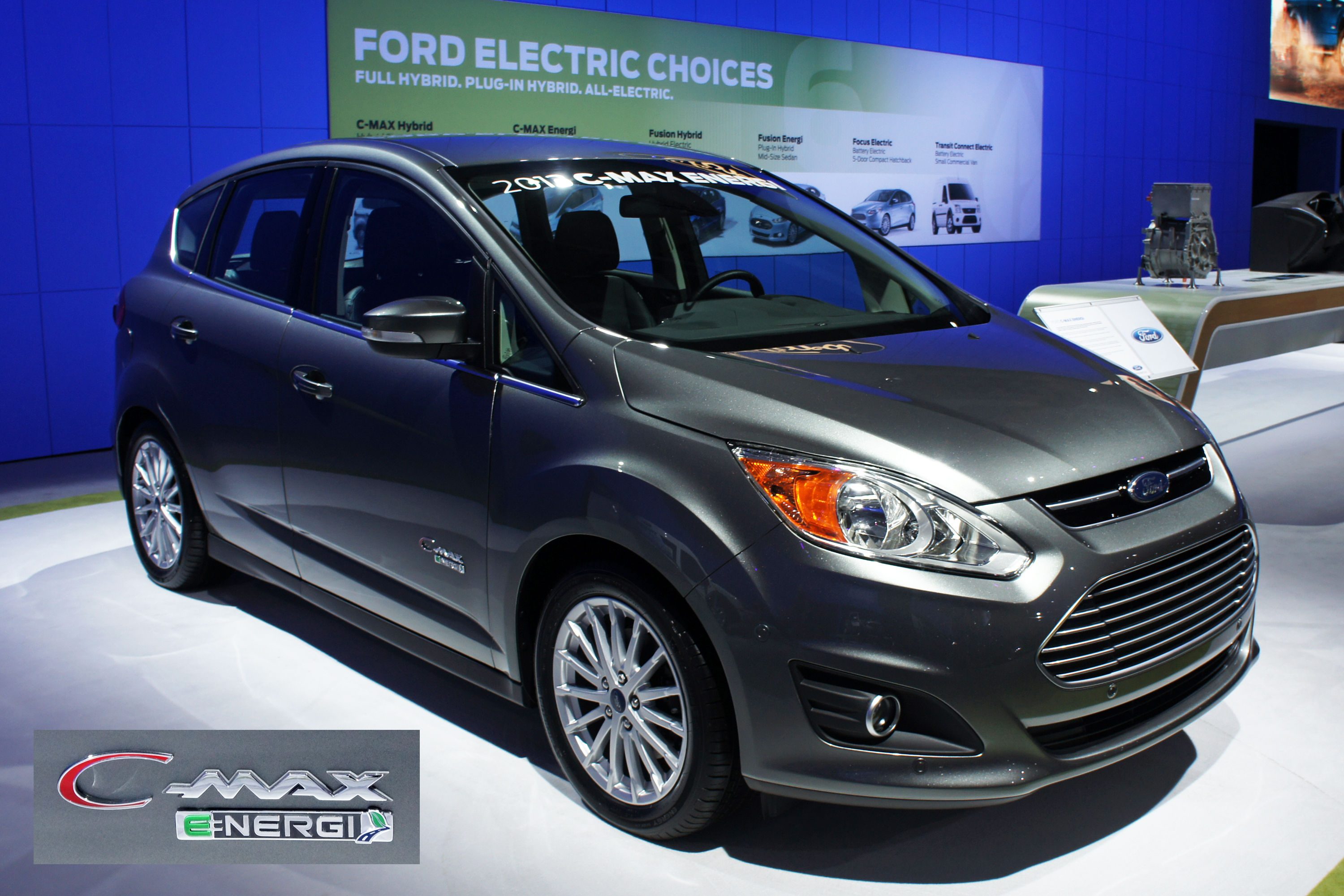 2013 Ford C-Max Energi plug-in hybrid exhibited at the 2012 Washington Auto Show (District of Columbia)